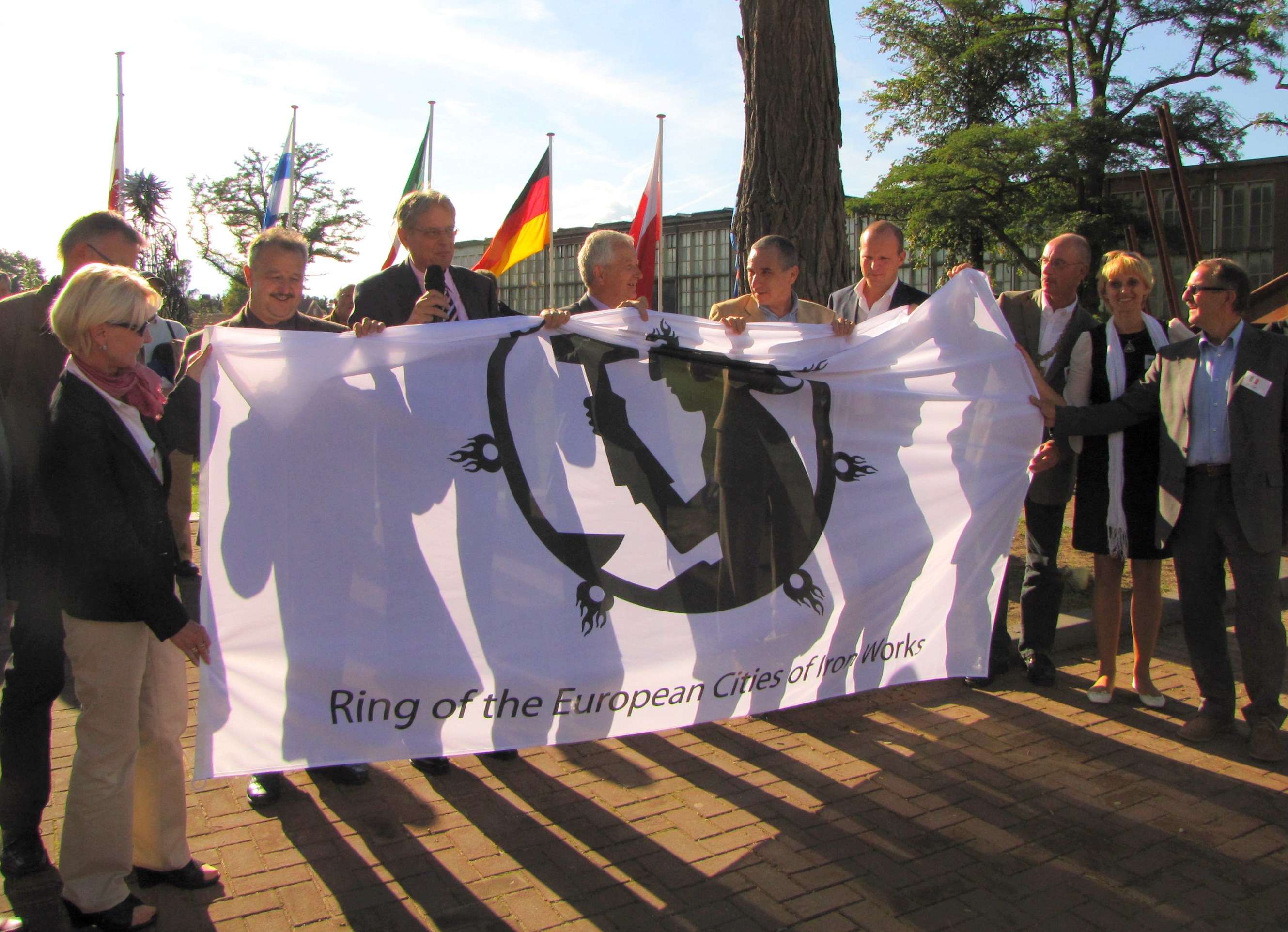 DRU Ulft: Ring of the European Cities of Iron Works.